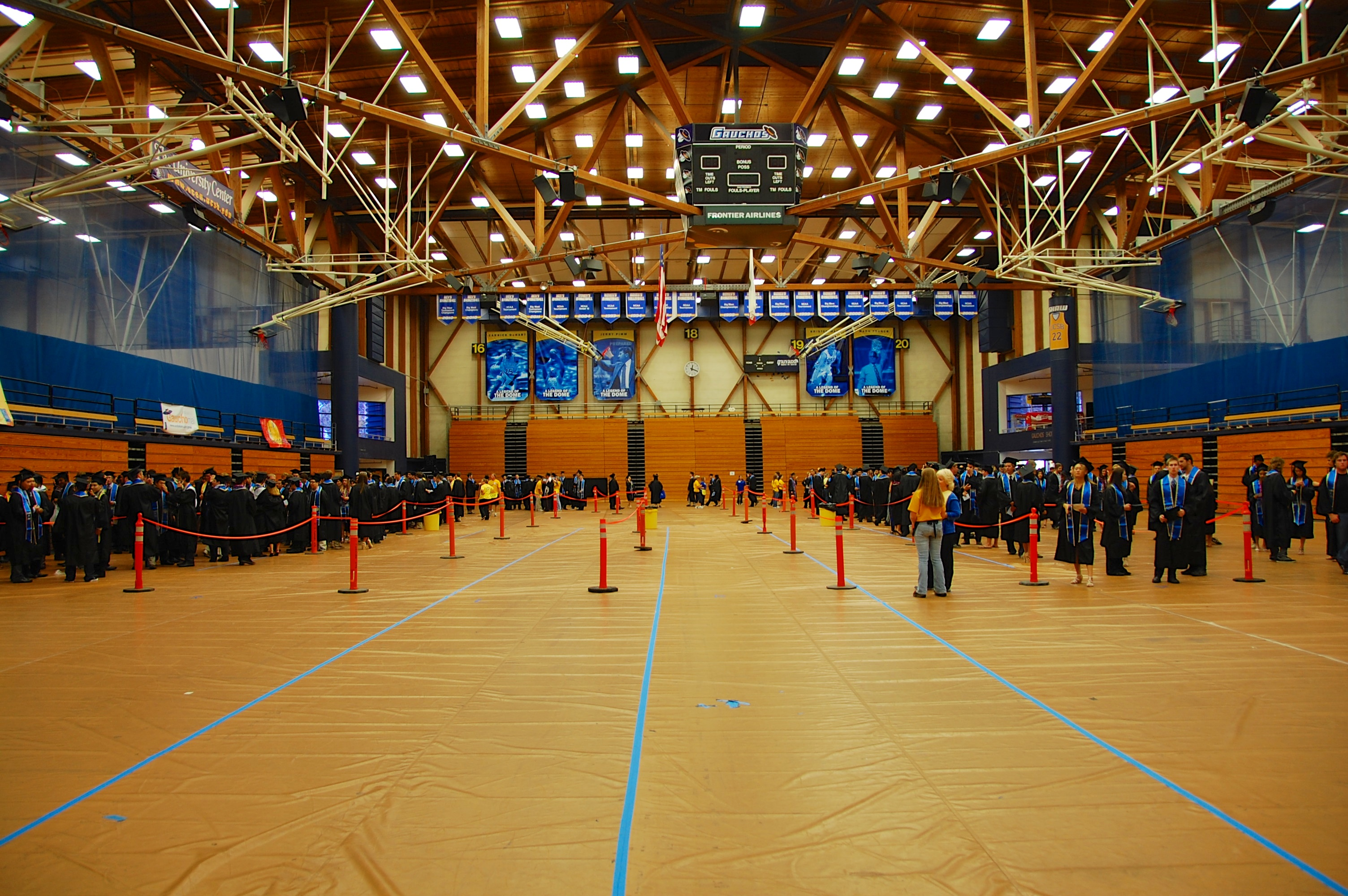 UC Santa Barbara Events Center (Thunderdome) housing students about to graduate, June 2012